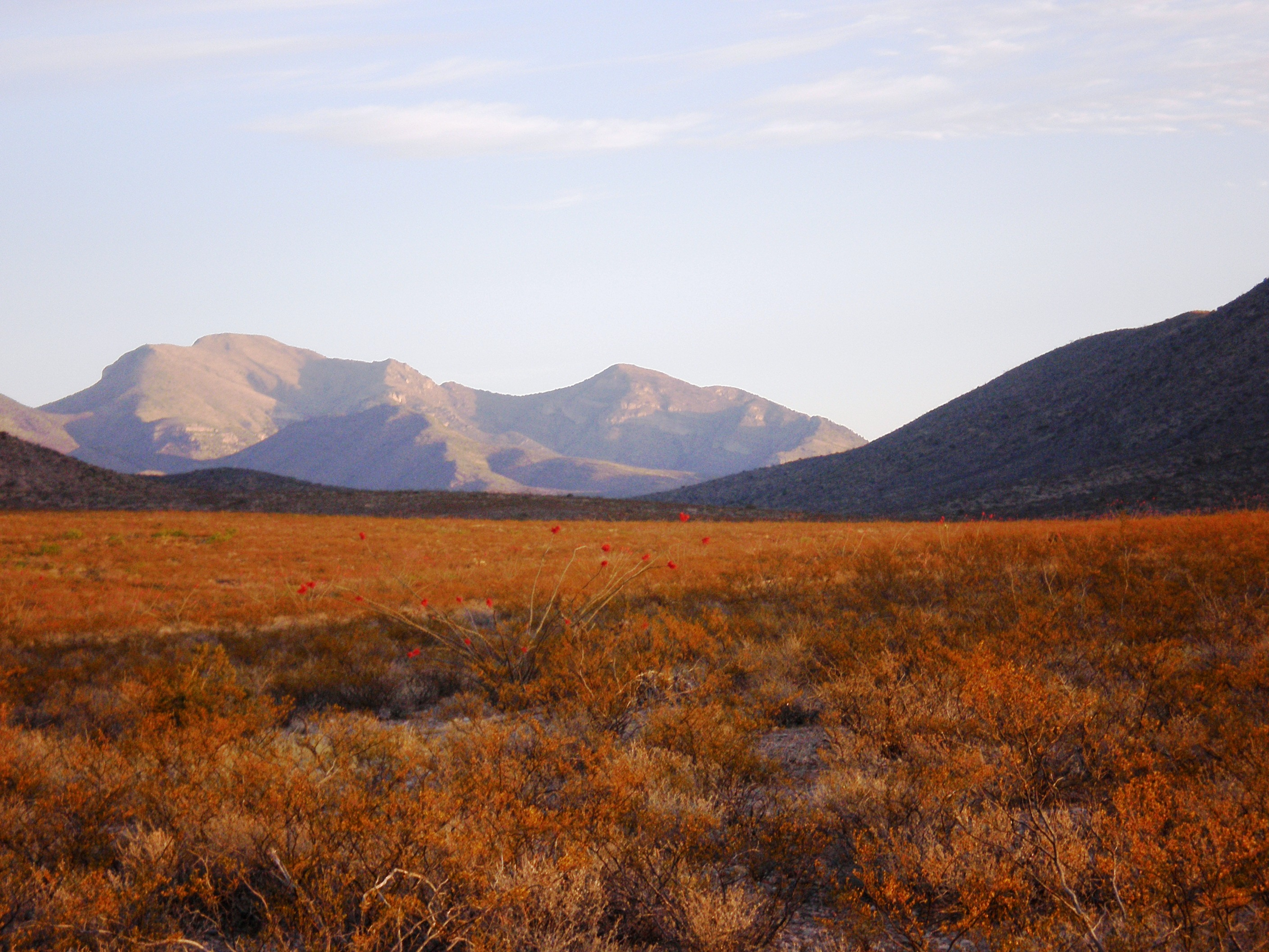 At the start of the Continental Divide Trail